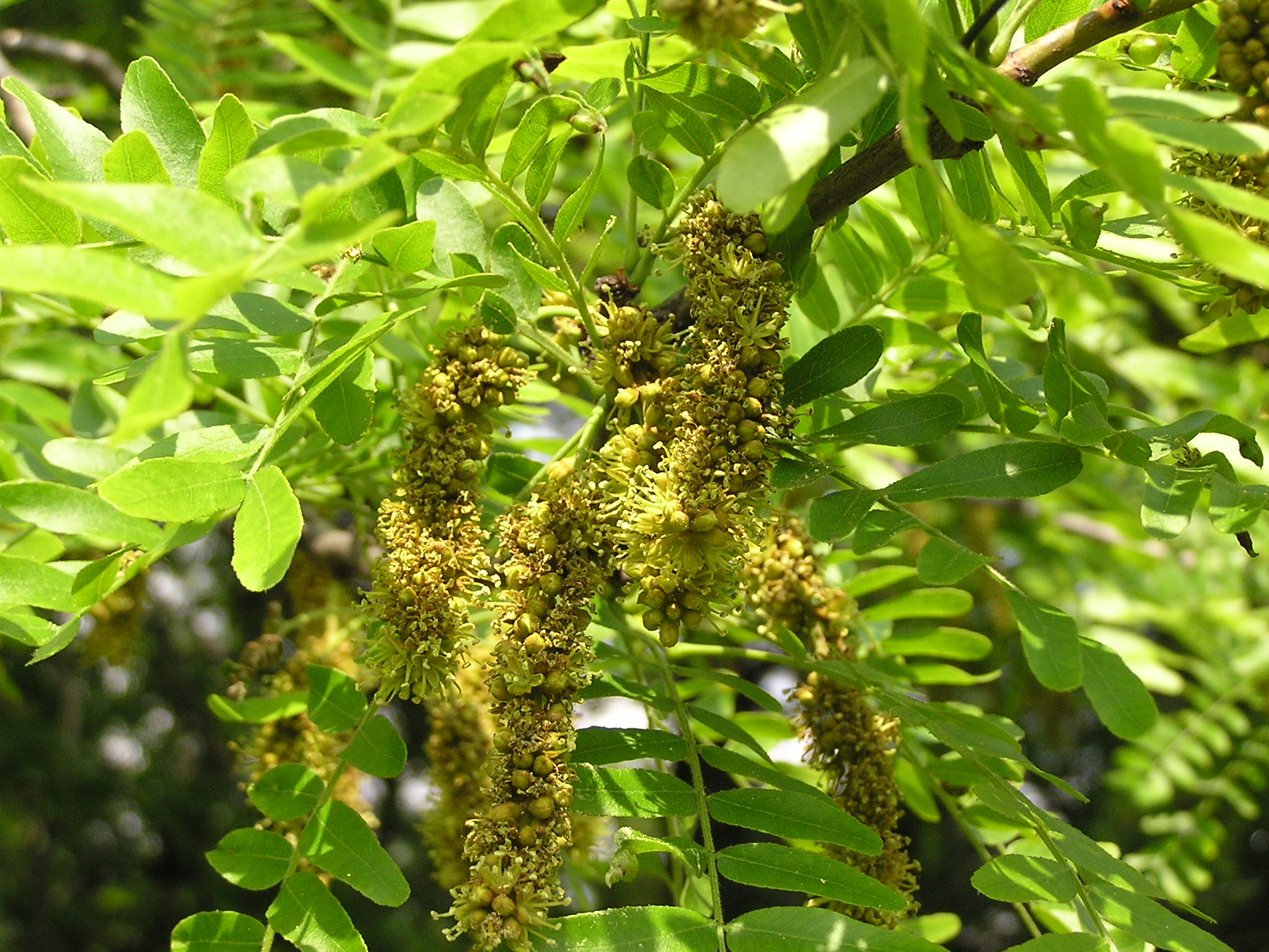 Gleditsia triacanthos